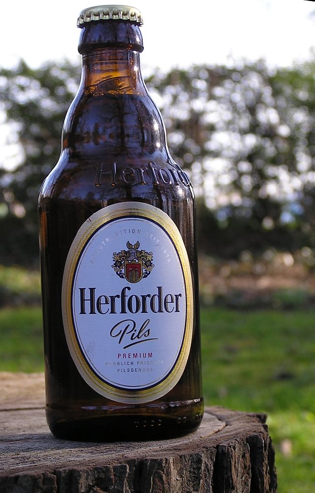 Bottle of Herforder Pils, a lager from town of Hiddenhausen, District of Herford, North Rhine-Westphalia, Germany.